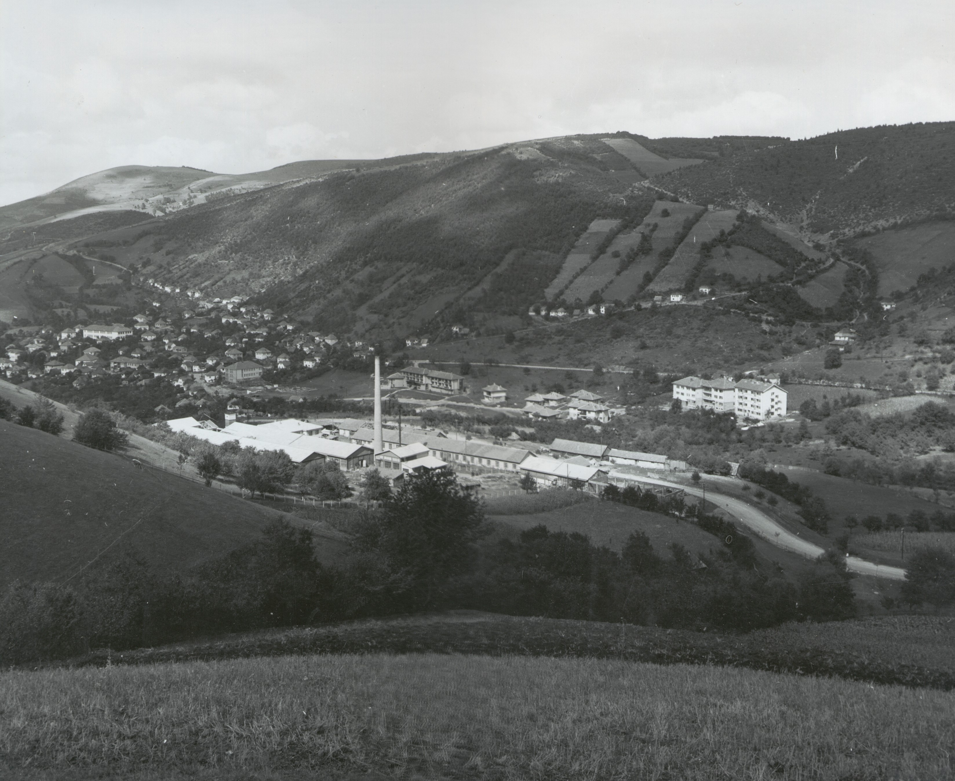 Panorama of the settlement Kokin Brod in Nova Varoš.